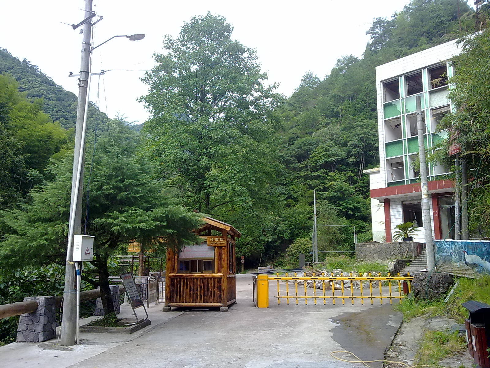 Wuyanling National Nature Reserve, Taishun, Wenzhou, Zhejiang, PR China. Entrance to the "scenic area" open for tourists.